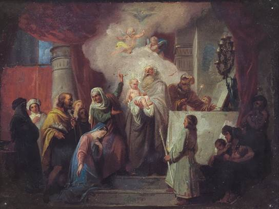 The Baptism